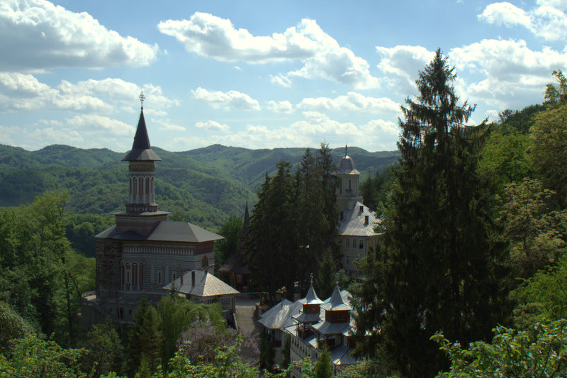 Rohia Monastery, Maramureş Romania - view from above